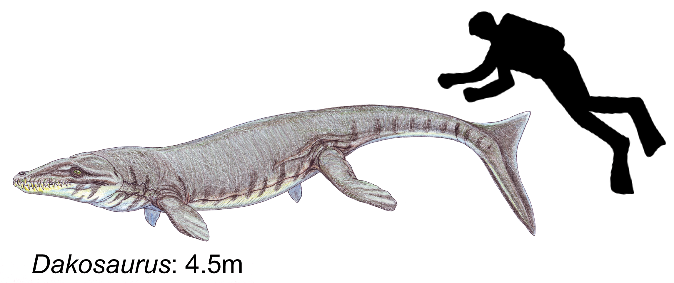 Life reconstruction showing the maximum body length for Dakosaurus maximus.